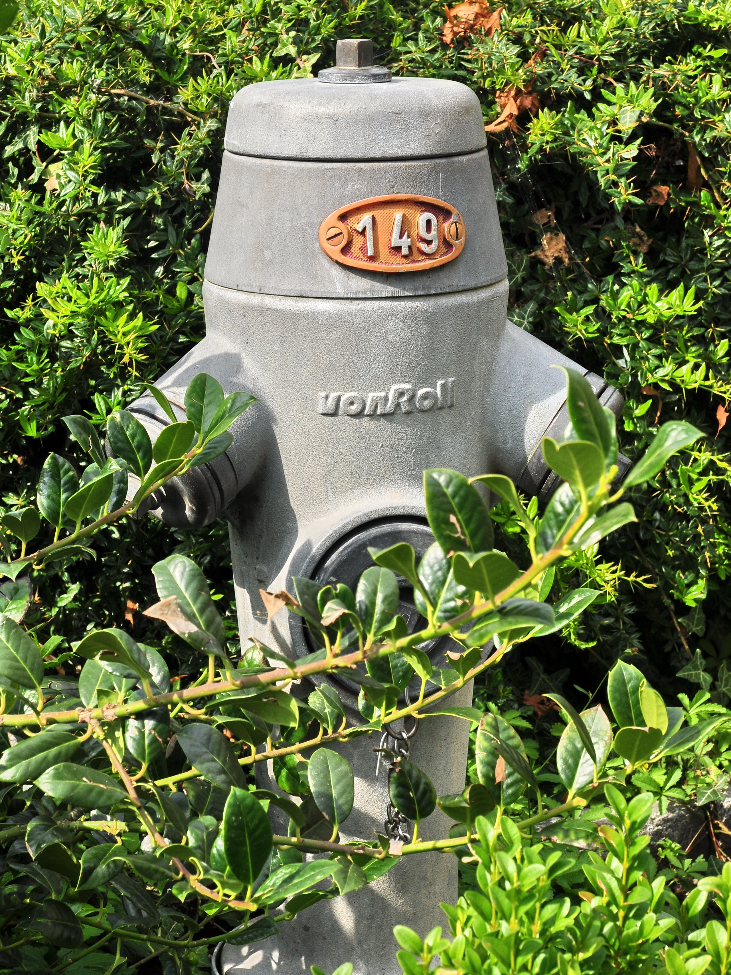 Polnische Freiheitssäule (Polish freedom column) at the eastern side of the Schloss (castle) in Rapperswil (Switzerland)